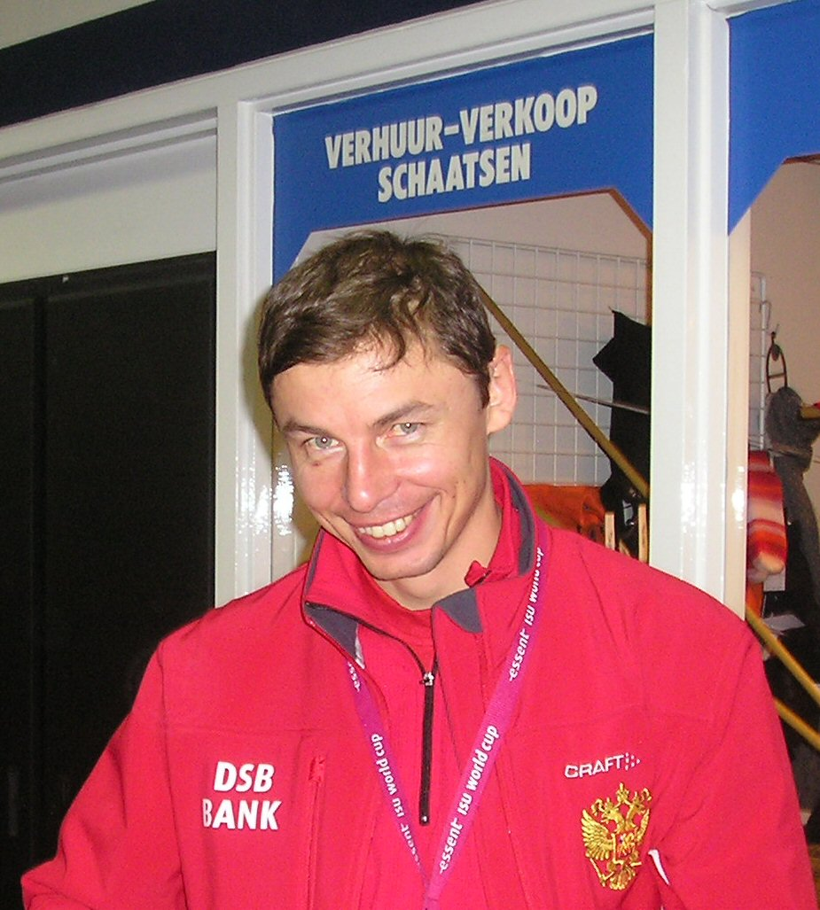 Vadim Sayutin (RUS) at a World Cup in Thialf (Heerenveen, The Netherlands)